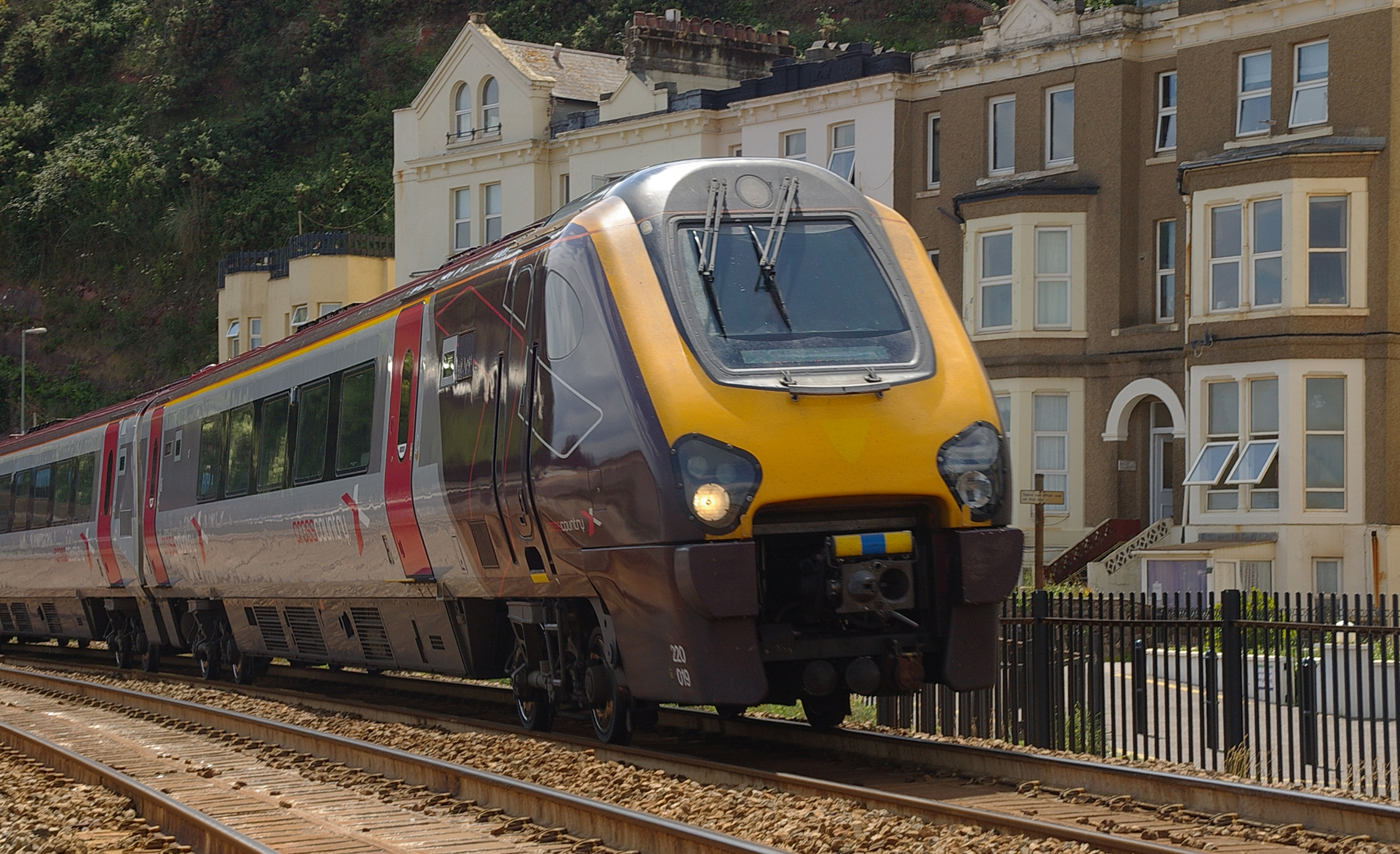 Cross-Country Trains 220019 heads north along the sea front at Dawlish.